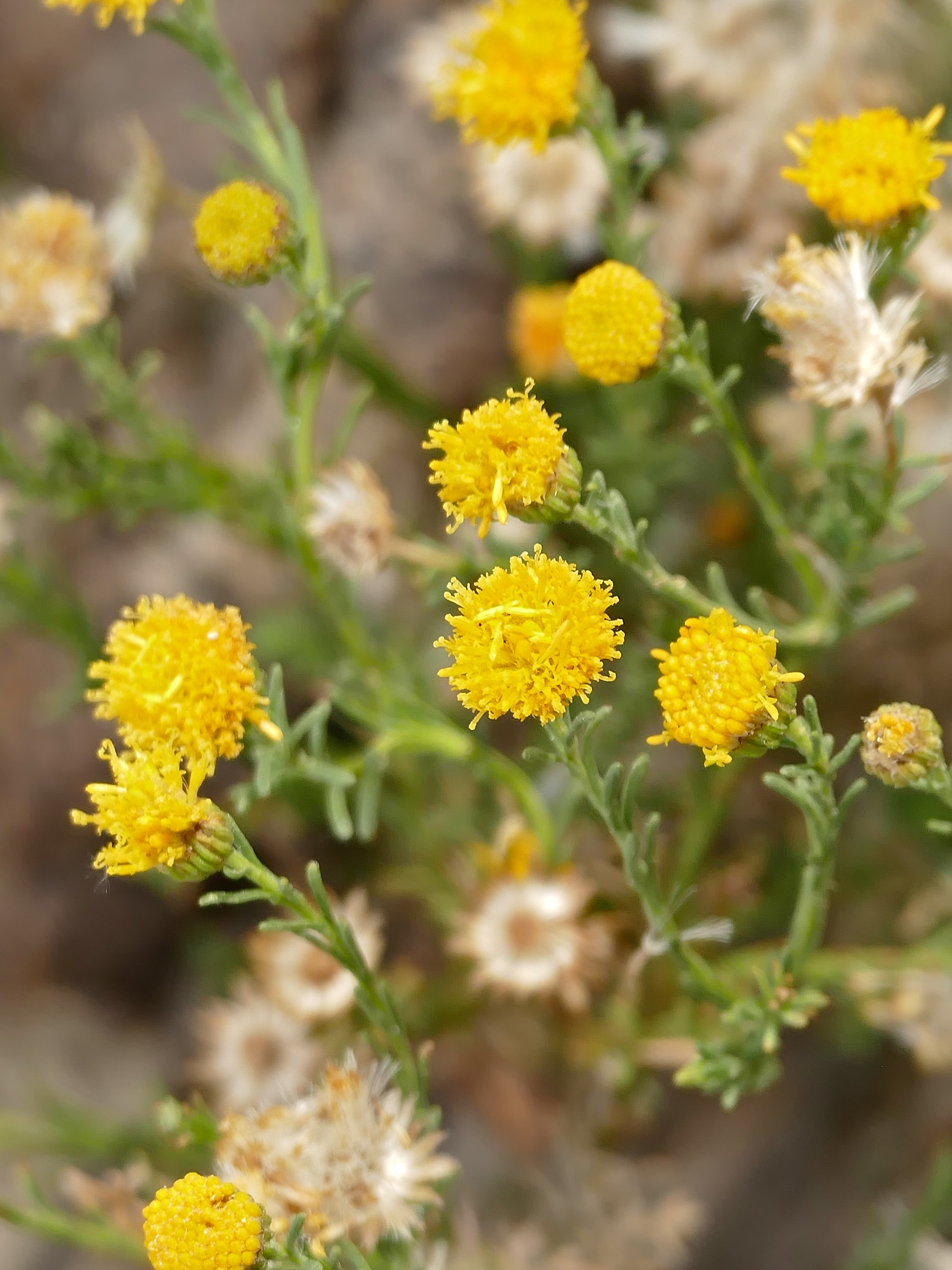 Ubejane Lloop, Mountain Zebra NP, Eastern Cape, SOUTH AFRICA